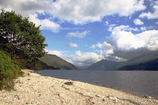 Looking north east along loch shiel